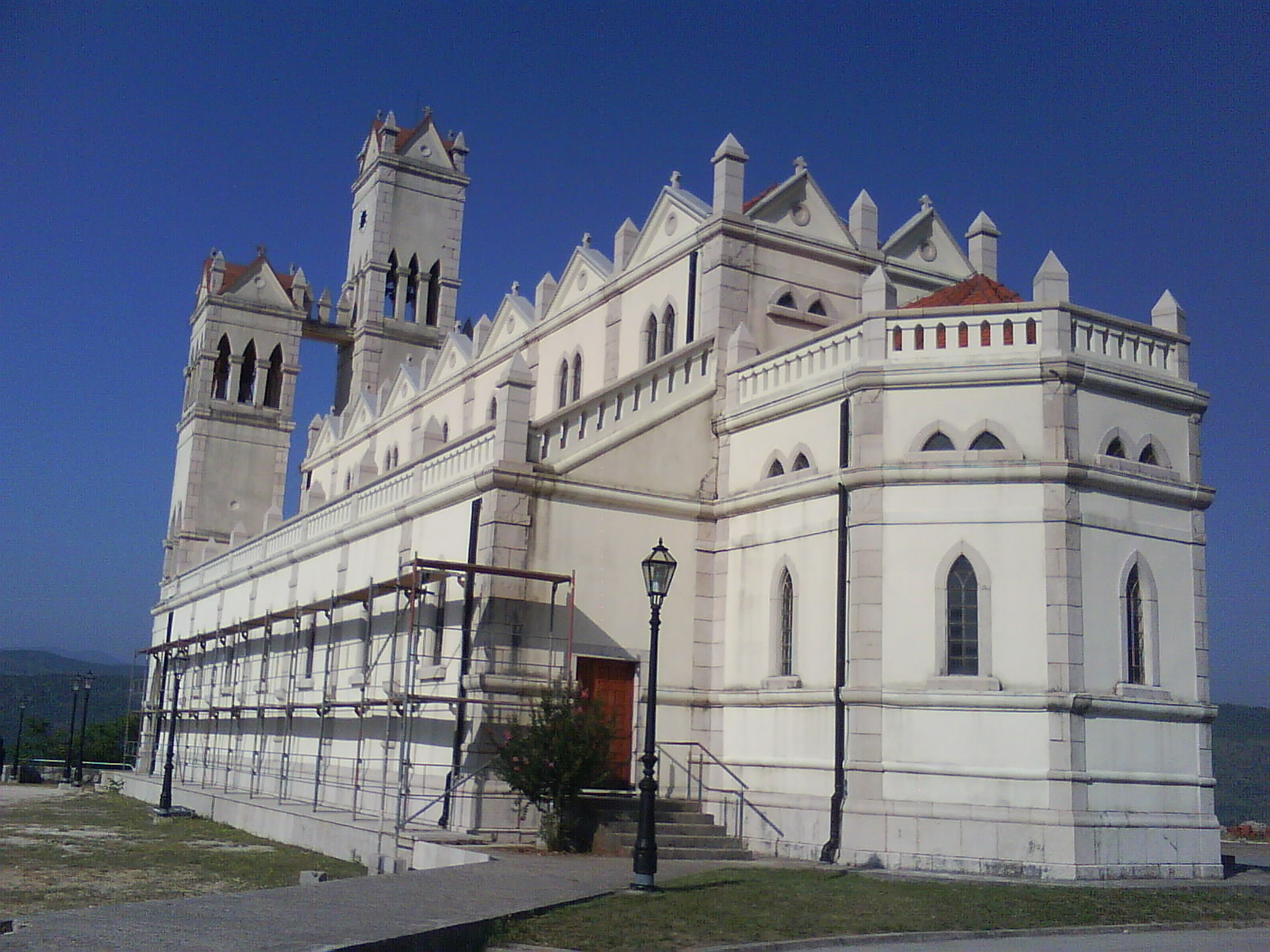 Roman catholic church of St. Catherine in Grude